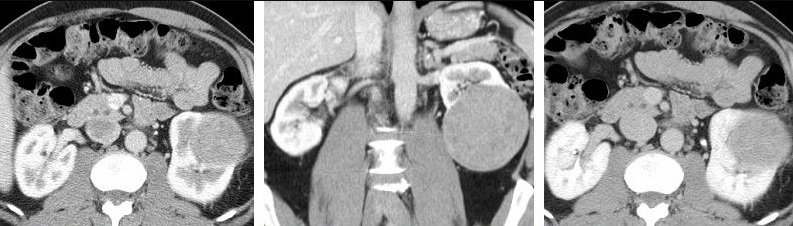 Corticomedullary phase CT in axial and coronal plane, and parenchymal phase, of renal cell carcinoma. For context, see Computed tomography of the abdomen and pelvis.